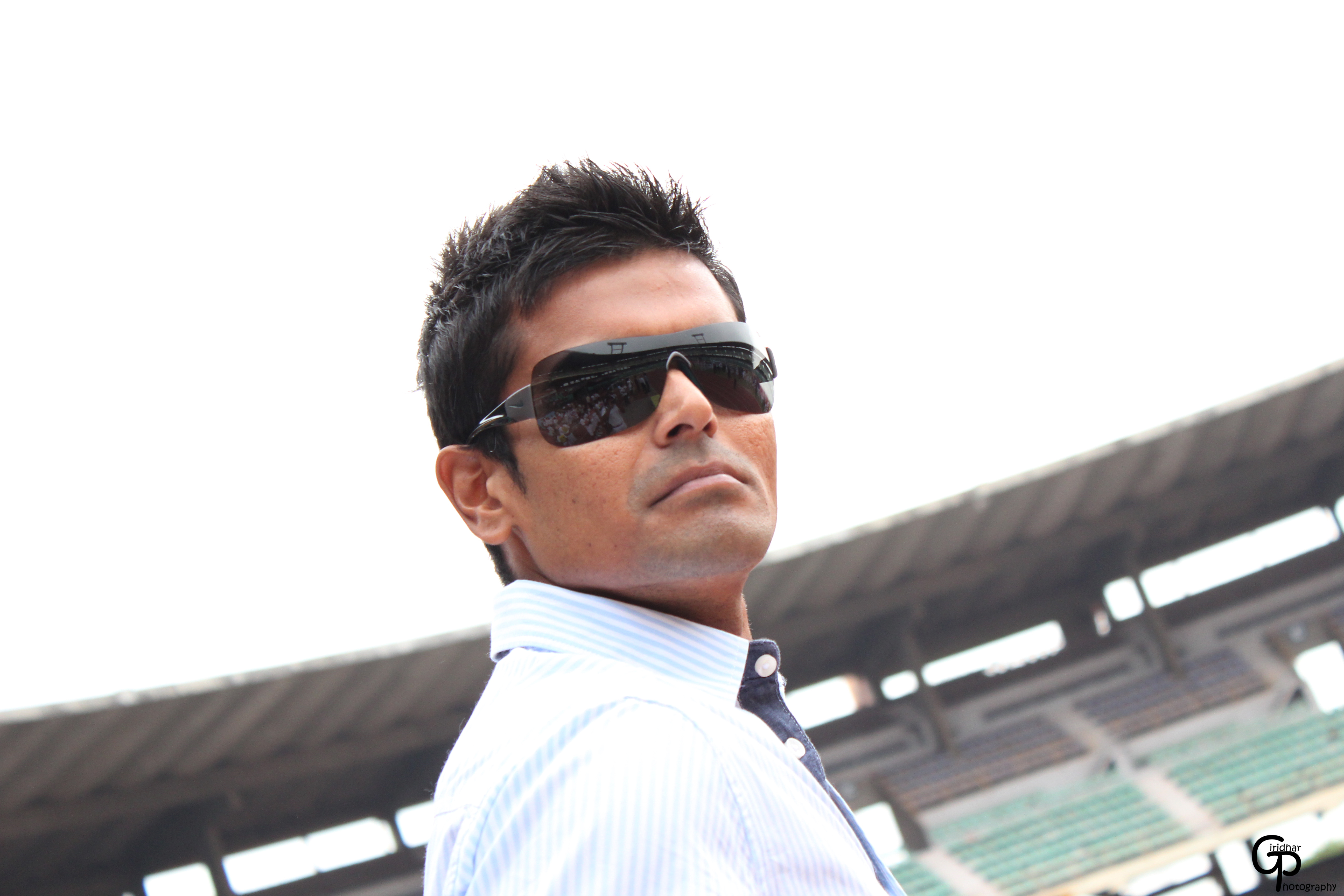 Picture taken during one on PSBB's sports day where Subramaniam Badrinath was the chief guest